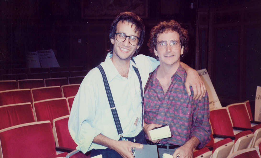 39th Emmy Awards - Sept. 1987 - rehearsal